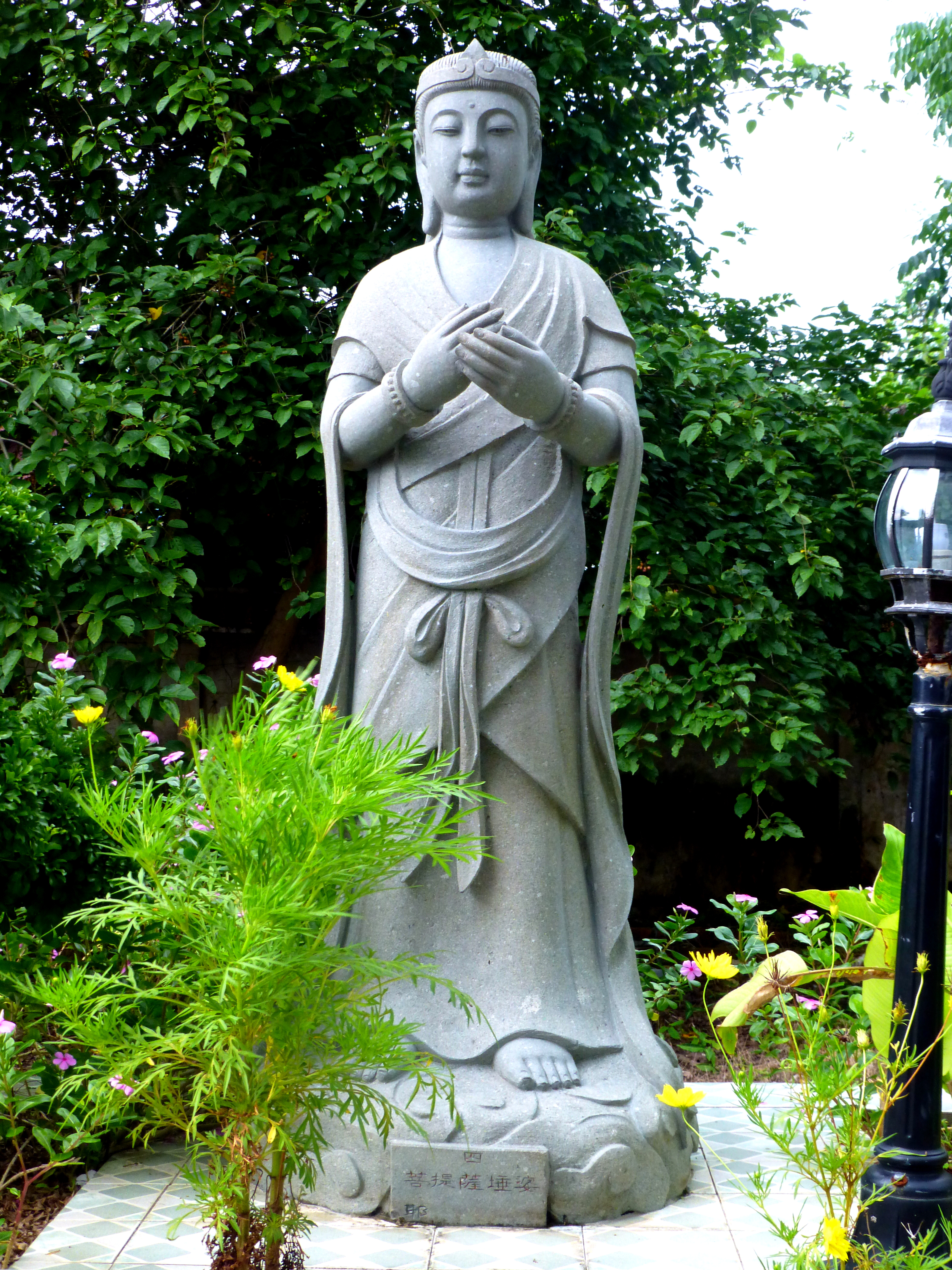 05 mo he sa duo po ye, Wat Khao Rup Chang, Songkhla, Thailand Photograph from Wat Tham Khao Rup Chang in Songkhla Province, Thailand taken by Anandajoti.